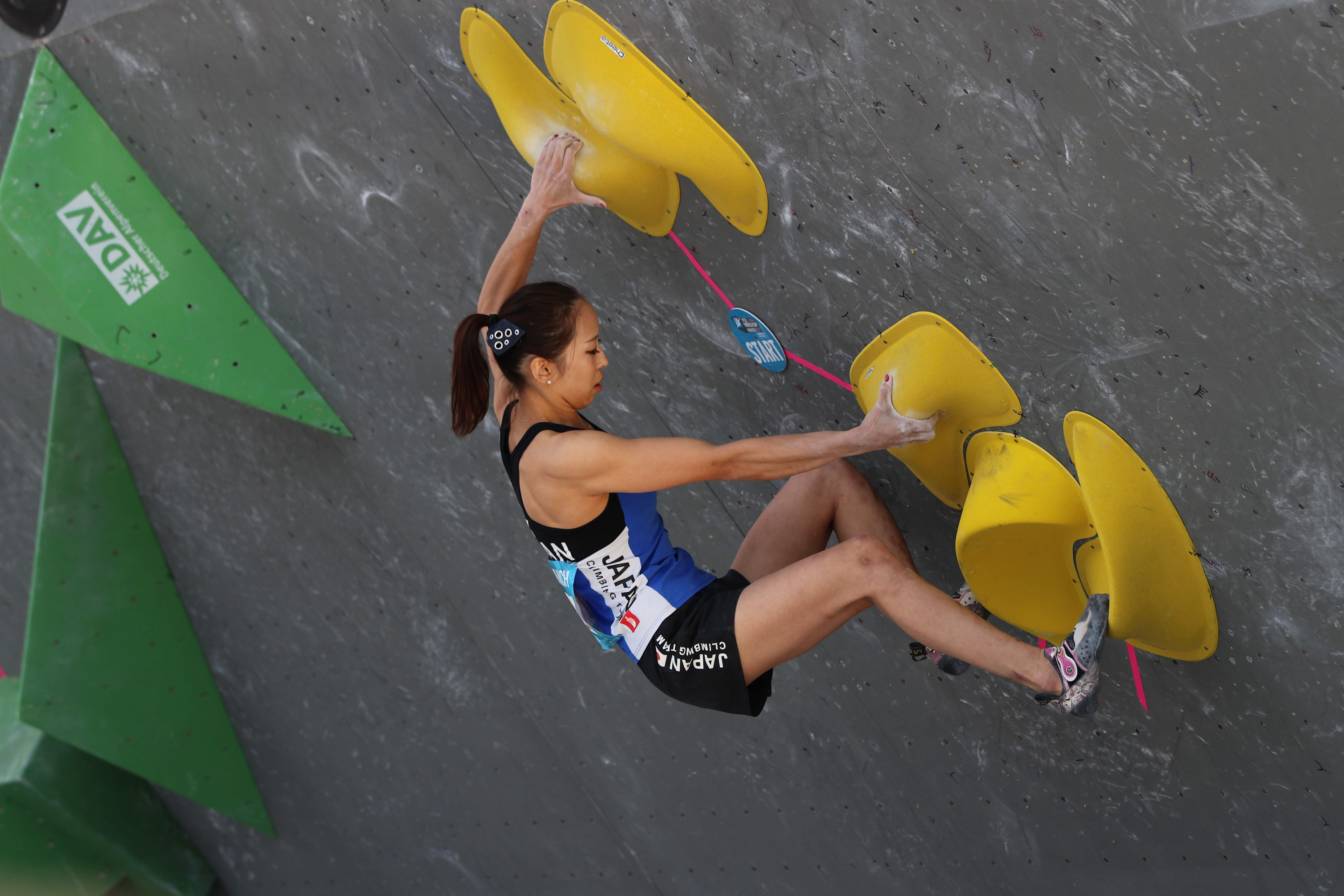 Akiyo Noguchi, sports climber from Japan at the Boulder Worldcup 2017 in Munich, Germany